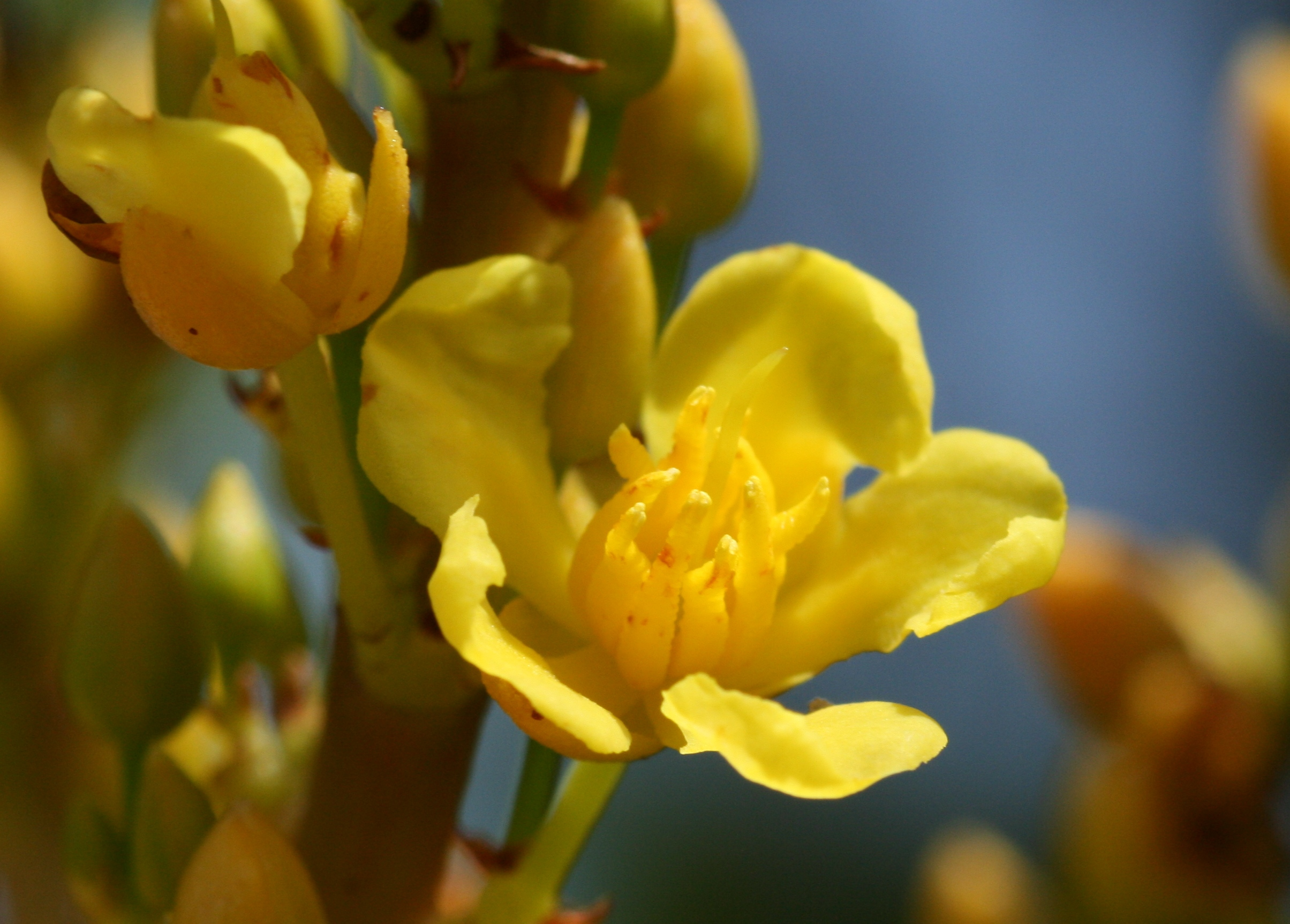 Flower of Ouratea brevicalyx, Rio Ventuari near Cacuri, Venezuela